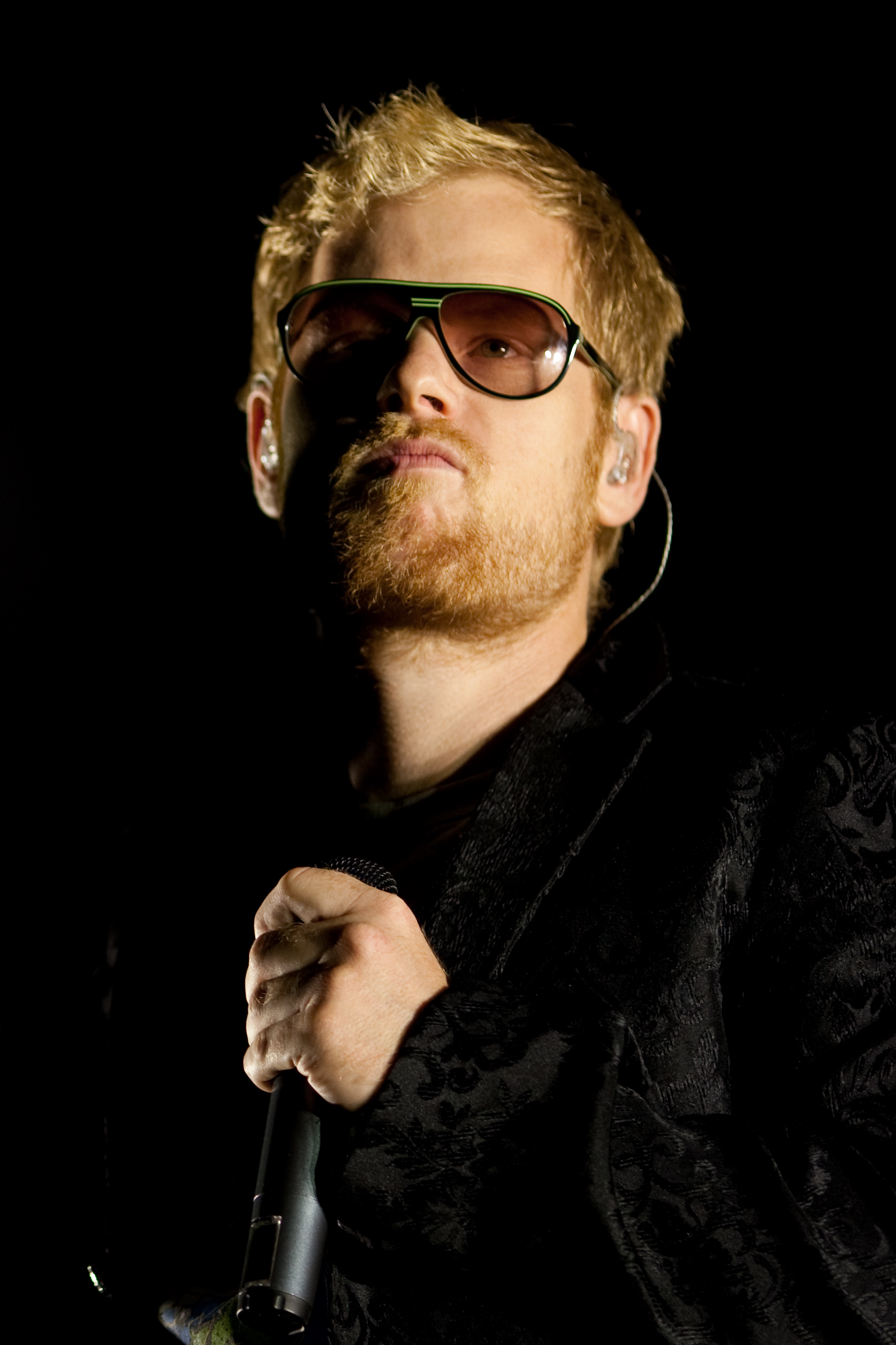 German singer Peter Fox performing live at SonneMondSterne festival 2009